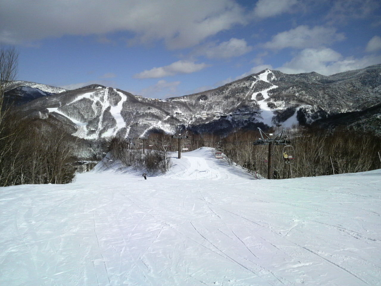 Mount Nishidate (left) ＆ Higashidate (right) seen from the southwest. Taken from Hasuike Ski Resort.